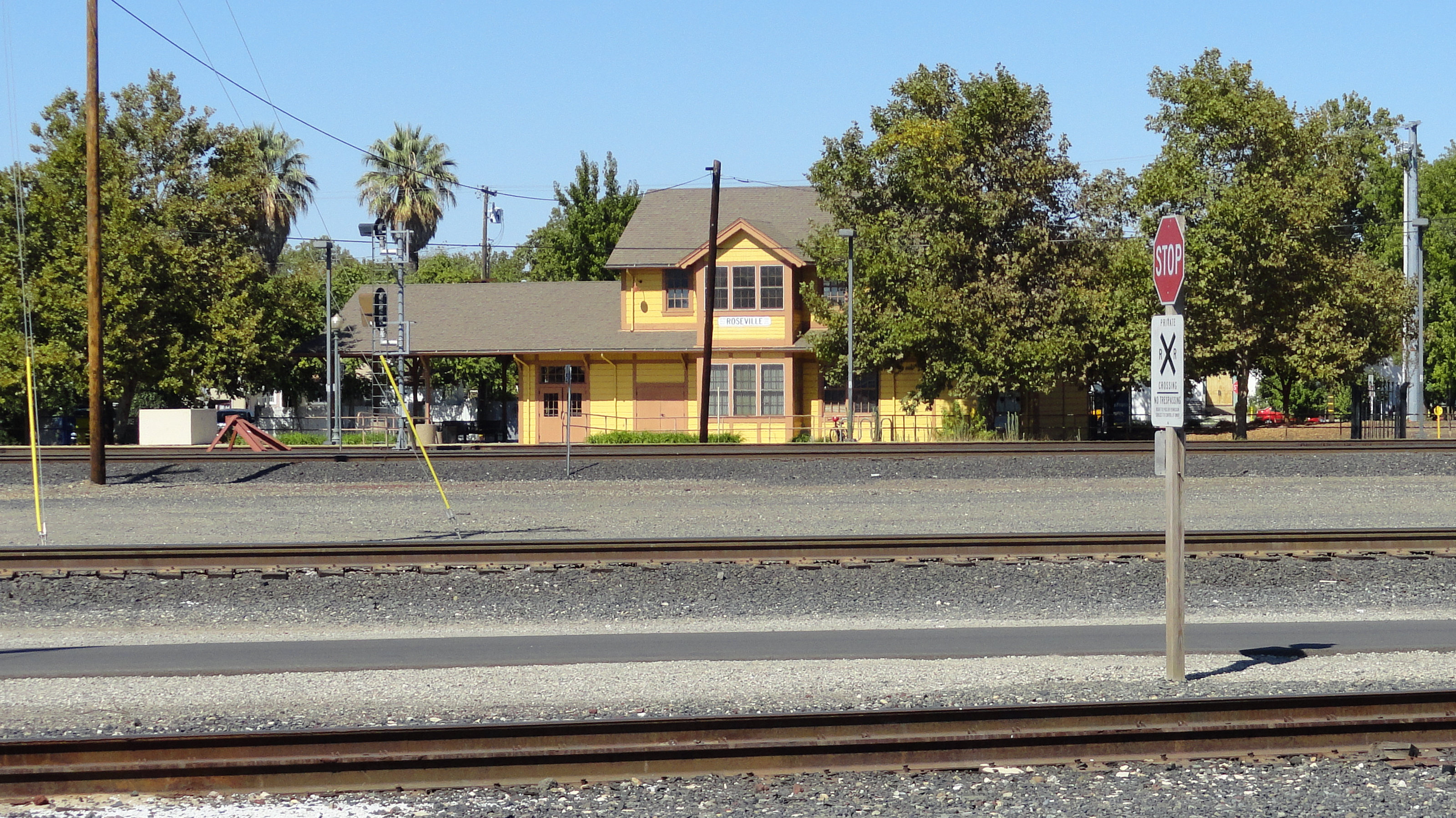 Roseville (Amtrak station) Roseville, Placer County, California, USA.